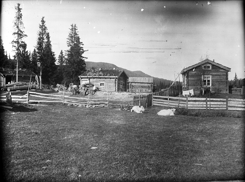 Vivallen in Härjedalen in 1913, during the first excavation of graves.